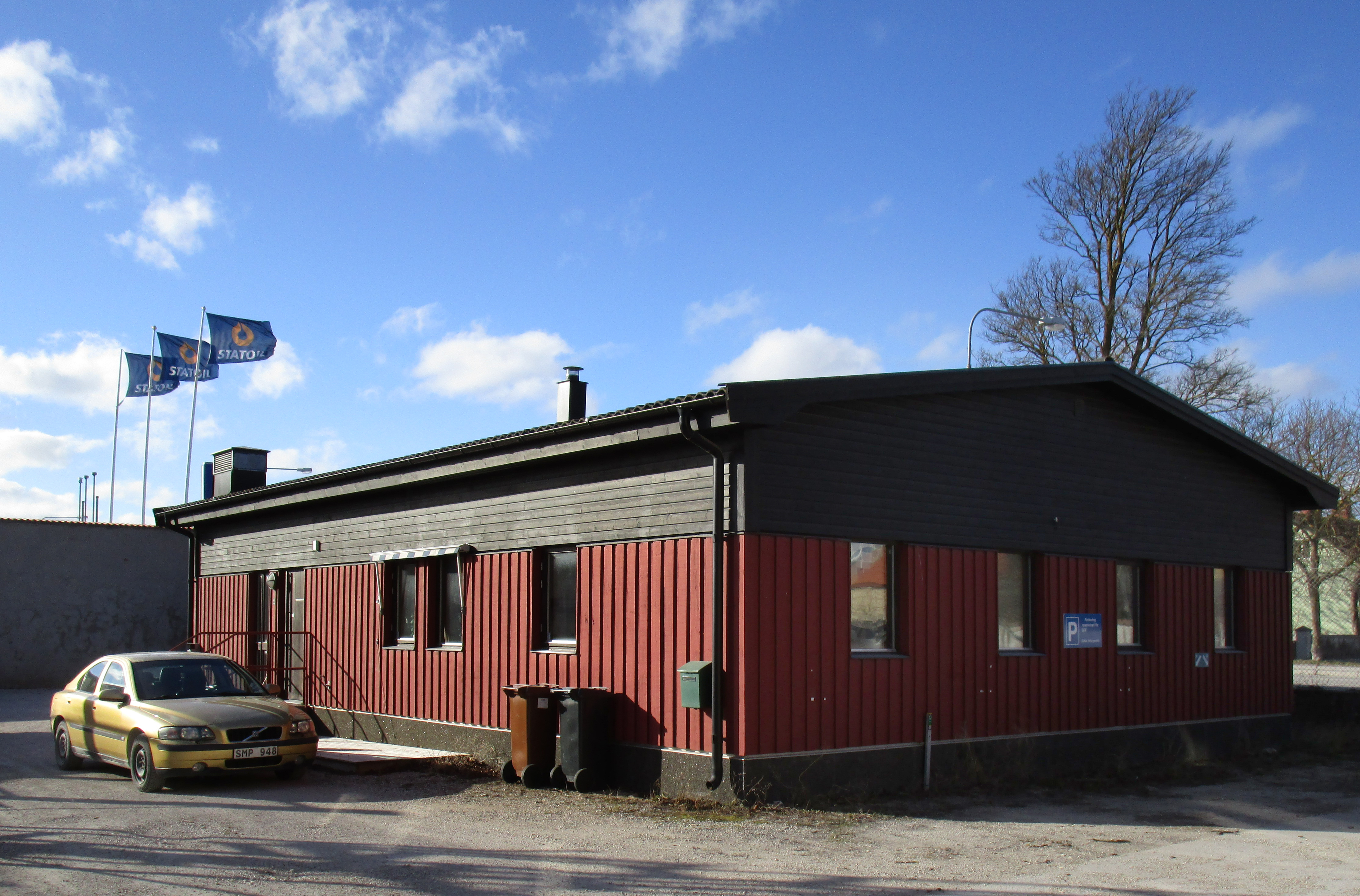 FC Gute old office in 2011 at Söderväg 5A, Visby. Now the office of Gotlands Fotbollförbund.